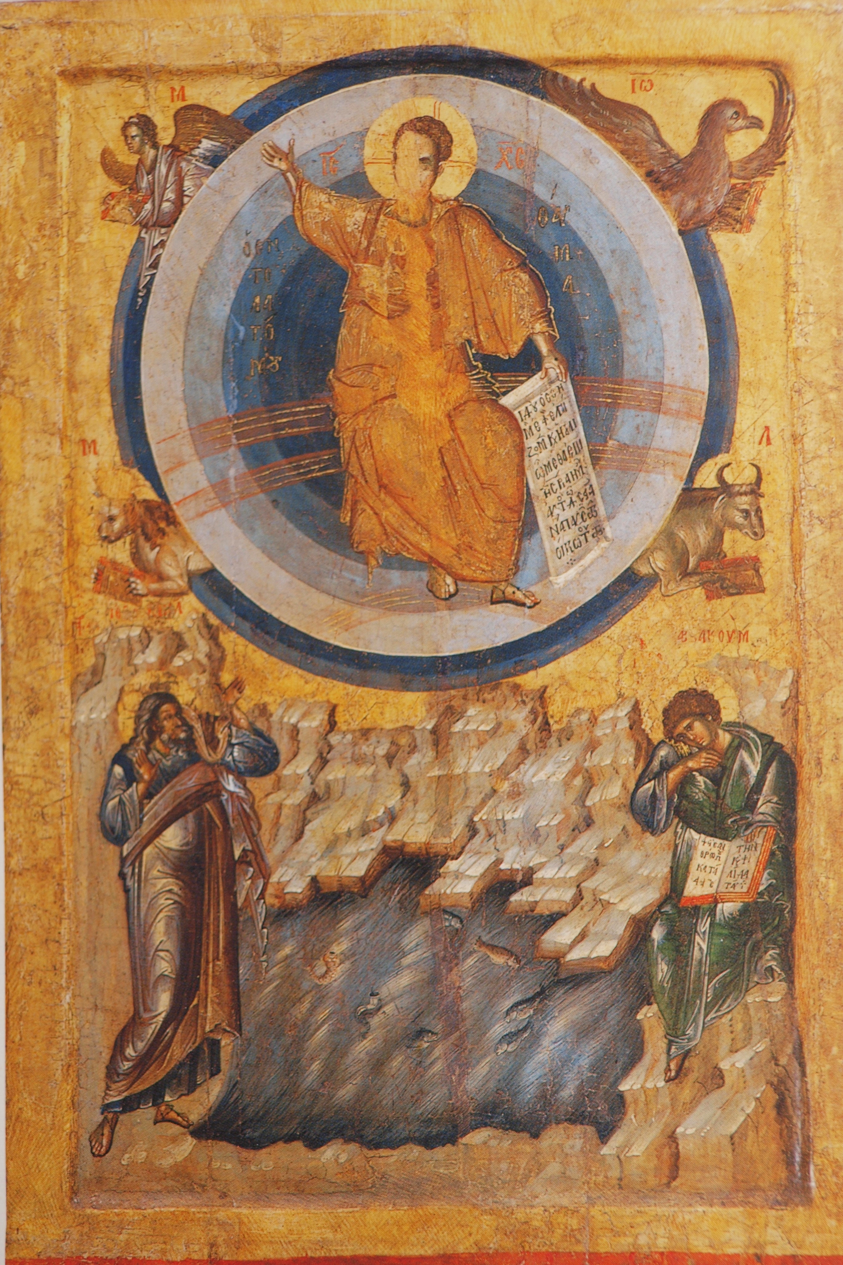 Revers Poganovo Icon, Vision ov Ezekiel, Thessaloniki, late 14th century